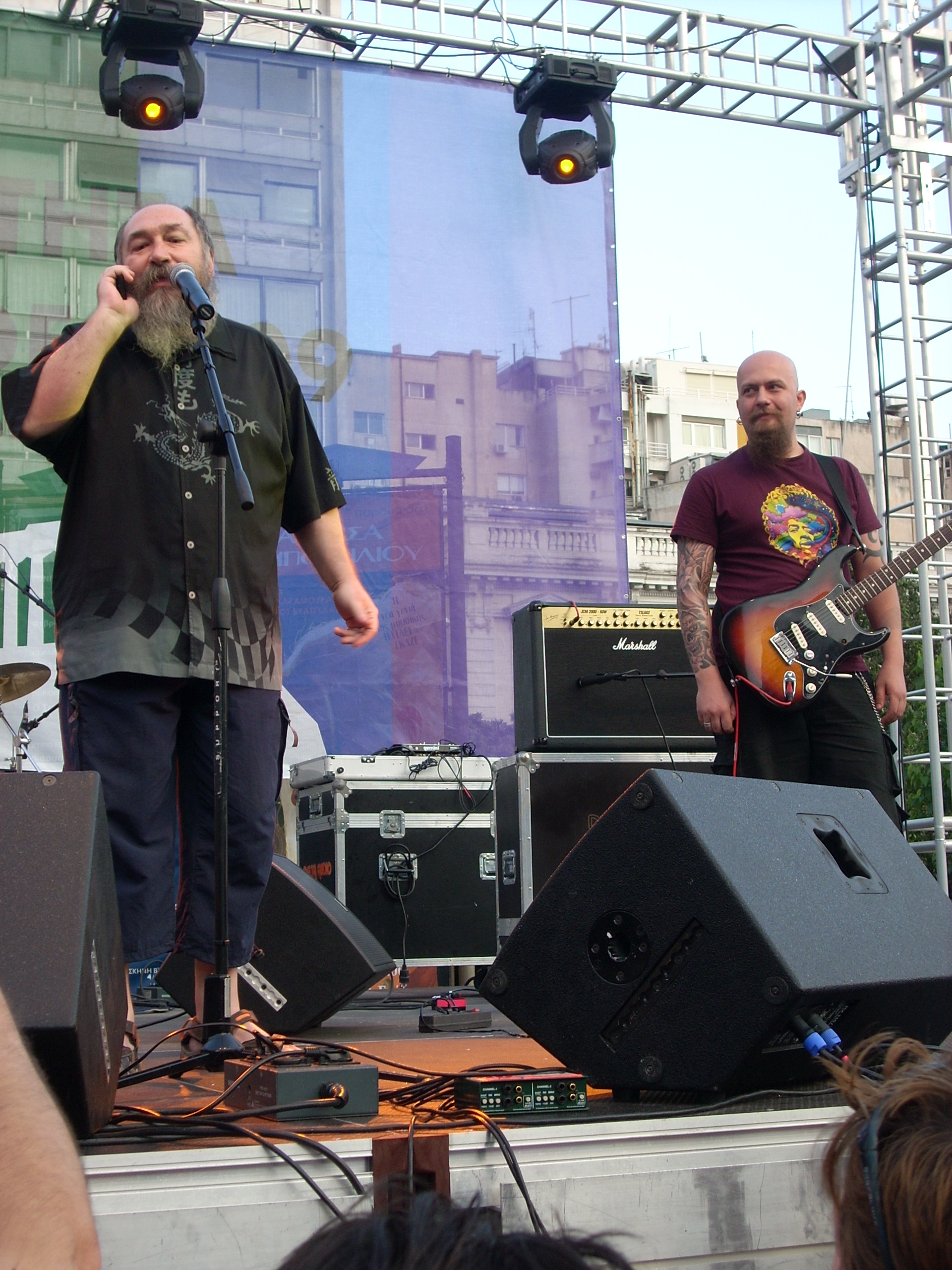 Athens Pride 2009